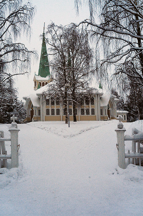 Jokkmokk (new) wodden church